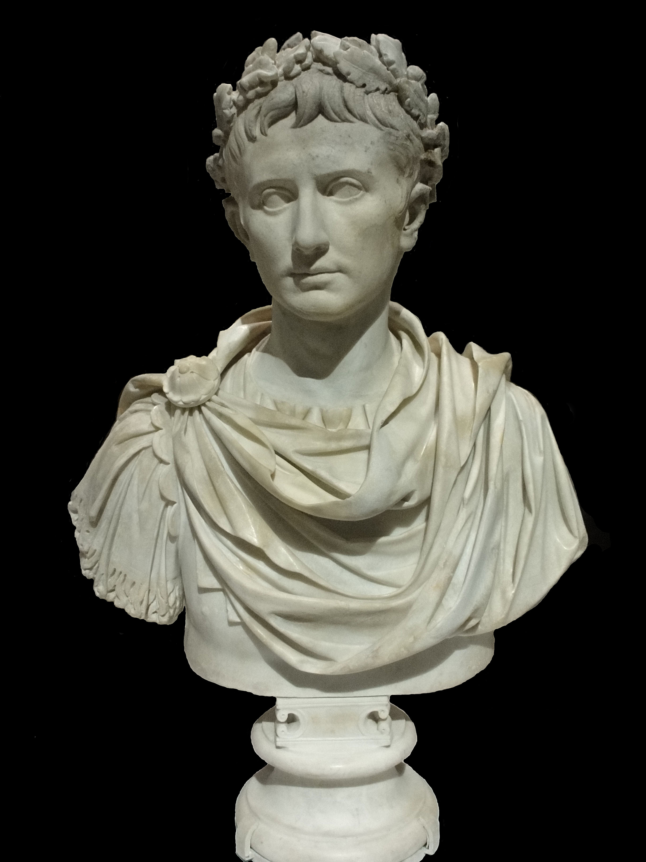 Provenance: Rome, Italy